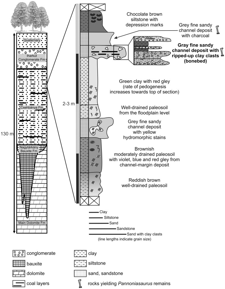 Geology of the Iharkút locality.Hypothetical geological section and detailed partial stratigraphic column at the most important SZ-6 site.